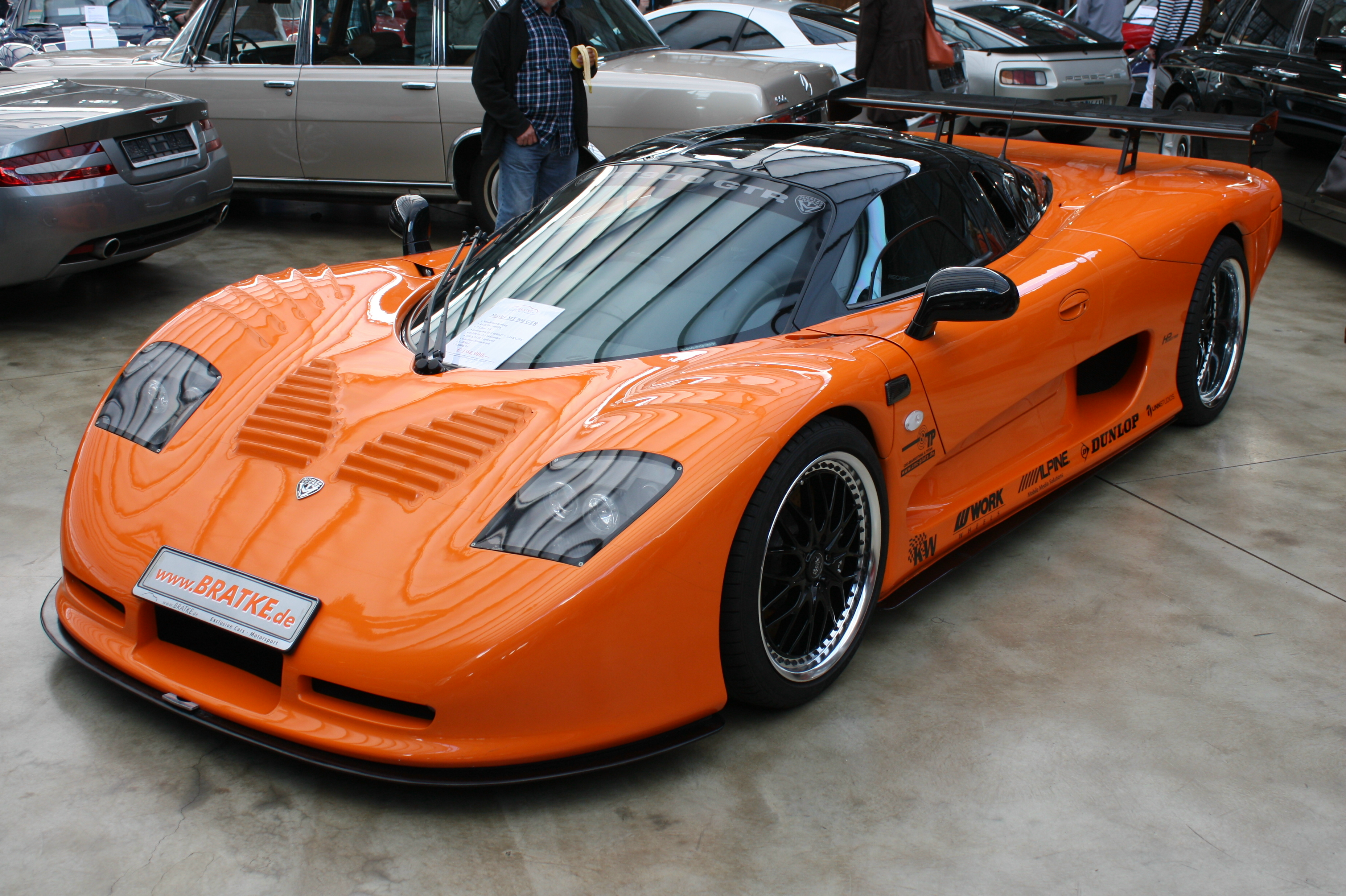 Mosler MT900 GTR (german street legal version, 7 litre engine)